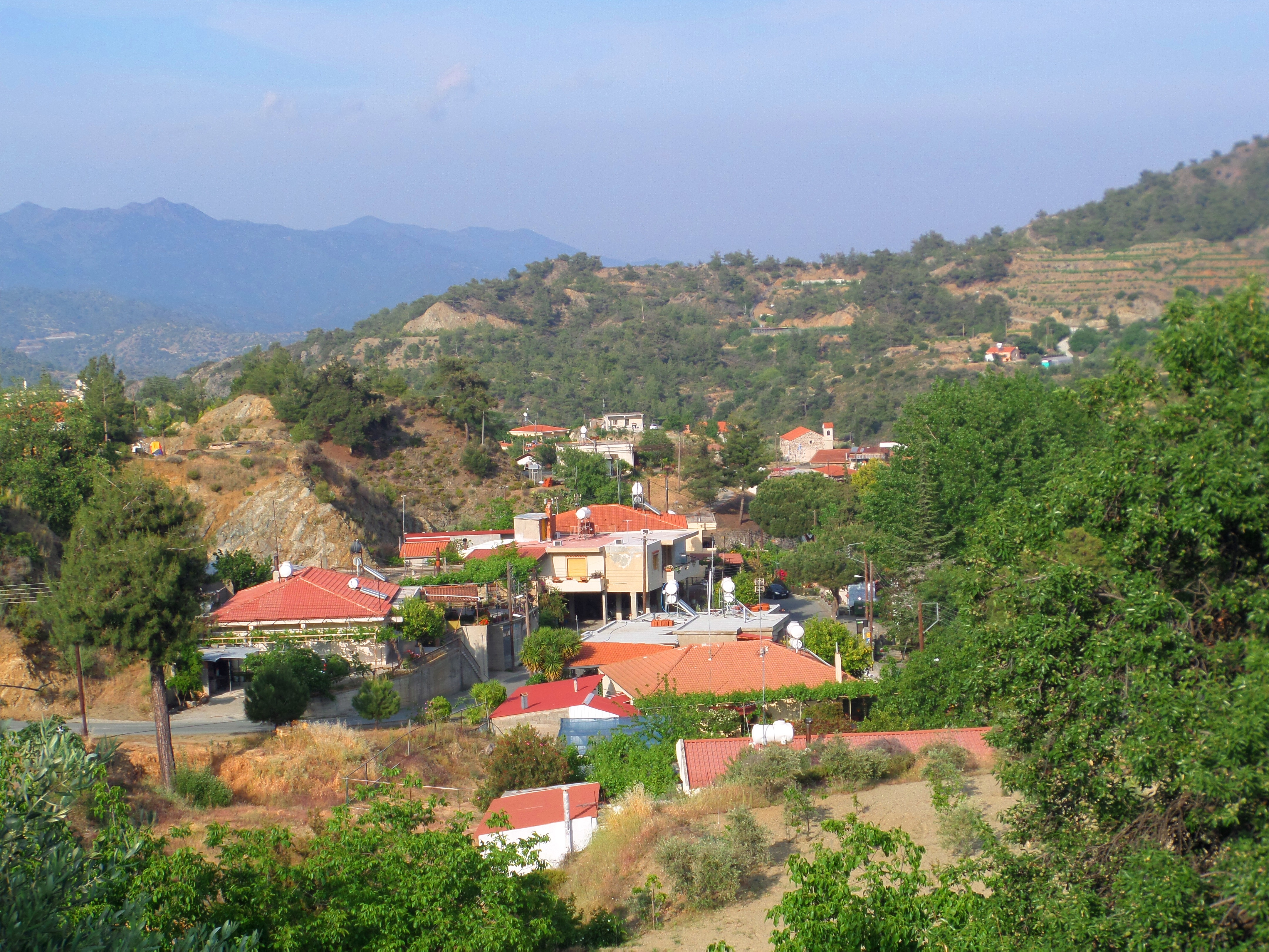 View of Louvaras.